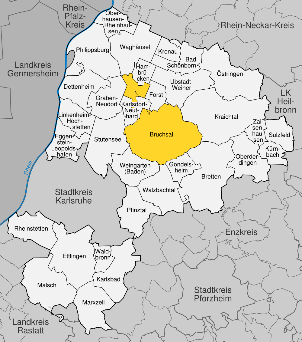 position of Bruchsal within distict of Karlsruhe, Baden-Württemberg, Germany